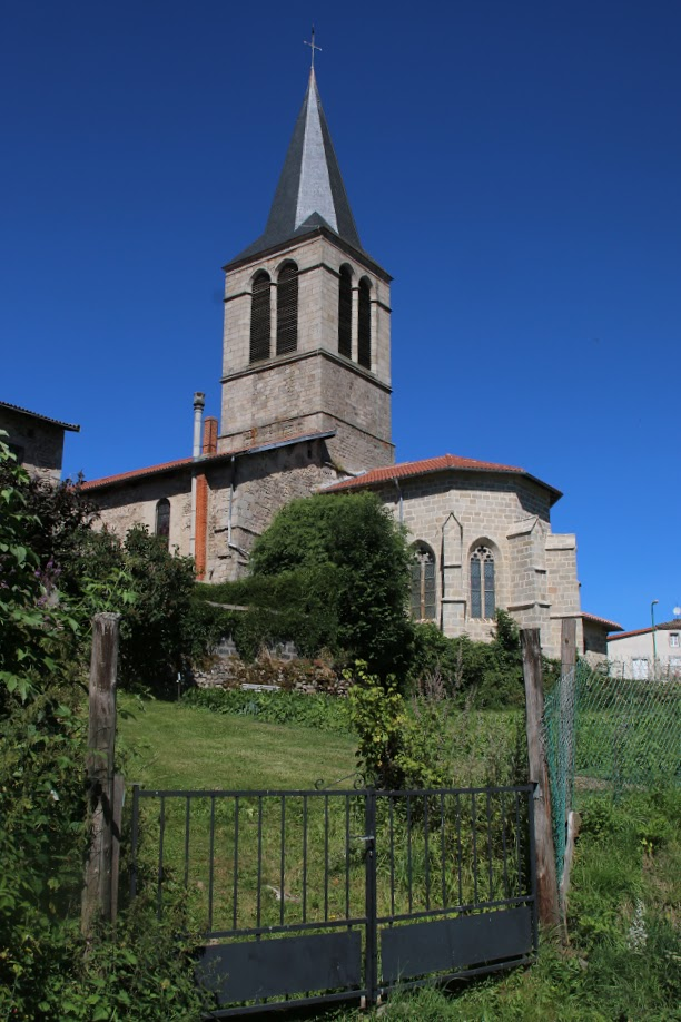 Eglise de Saint-Germain l'Herm, le chevet du XIVe siècle.